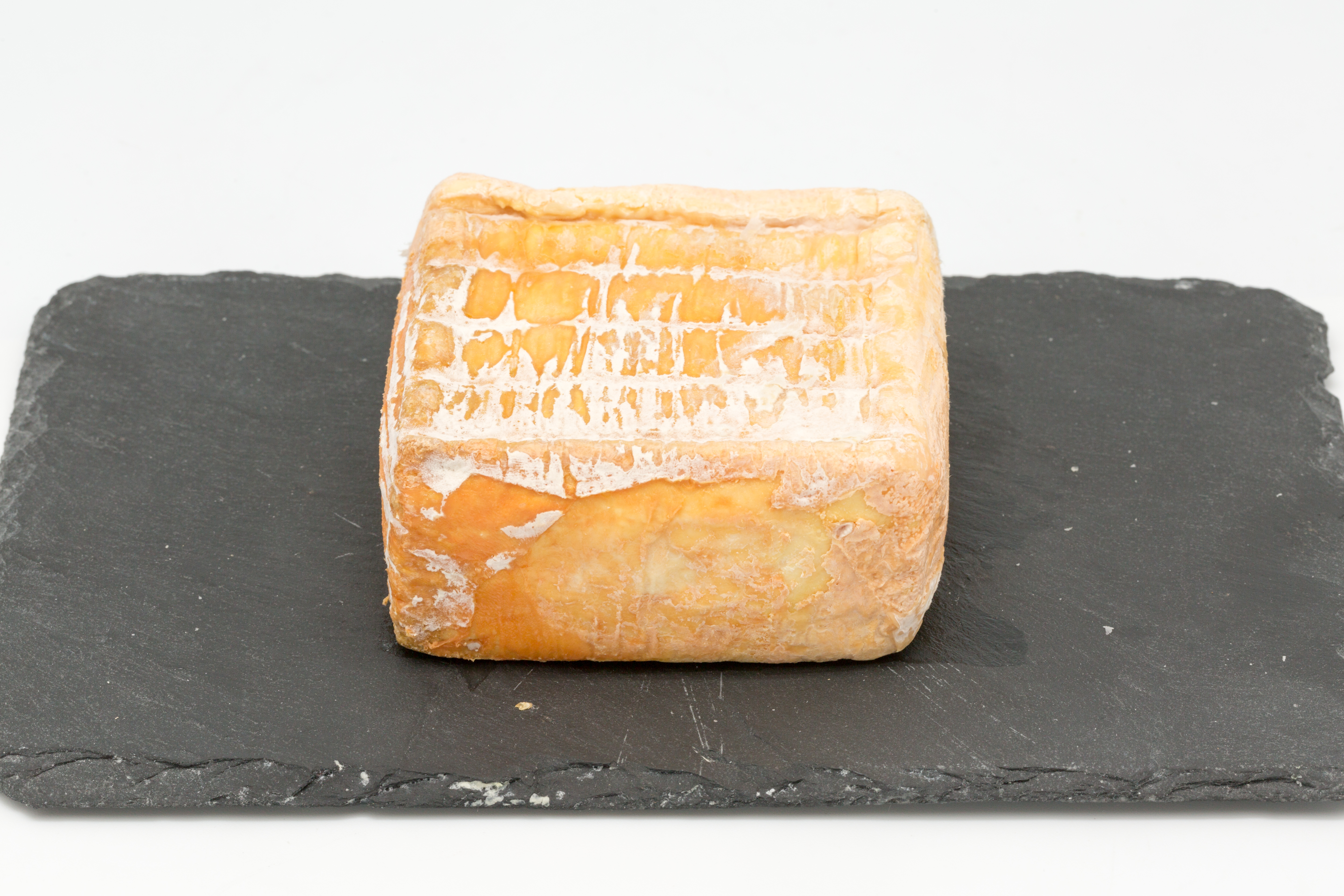 Cheese